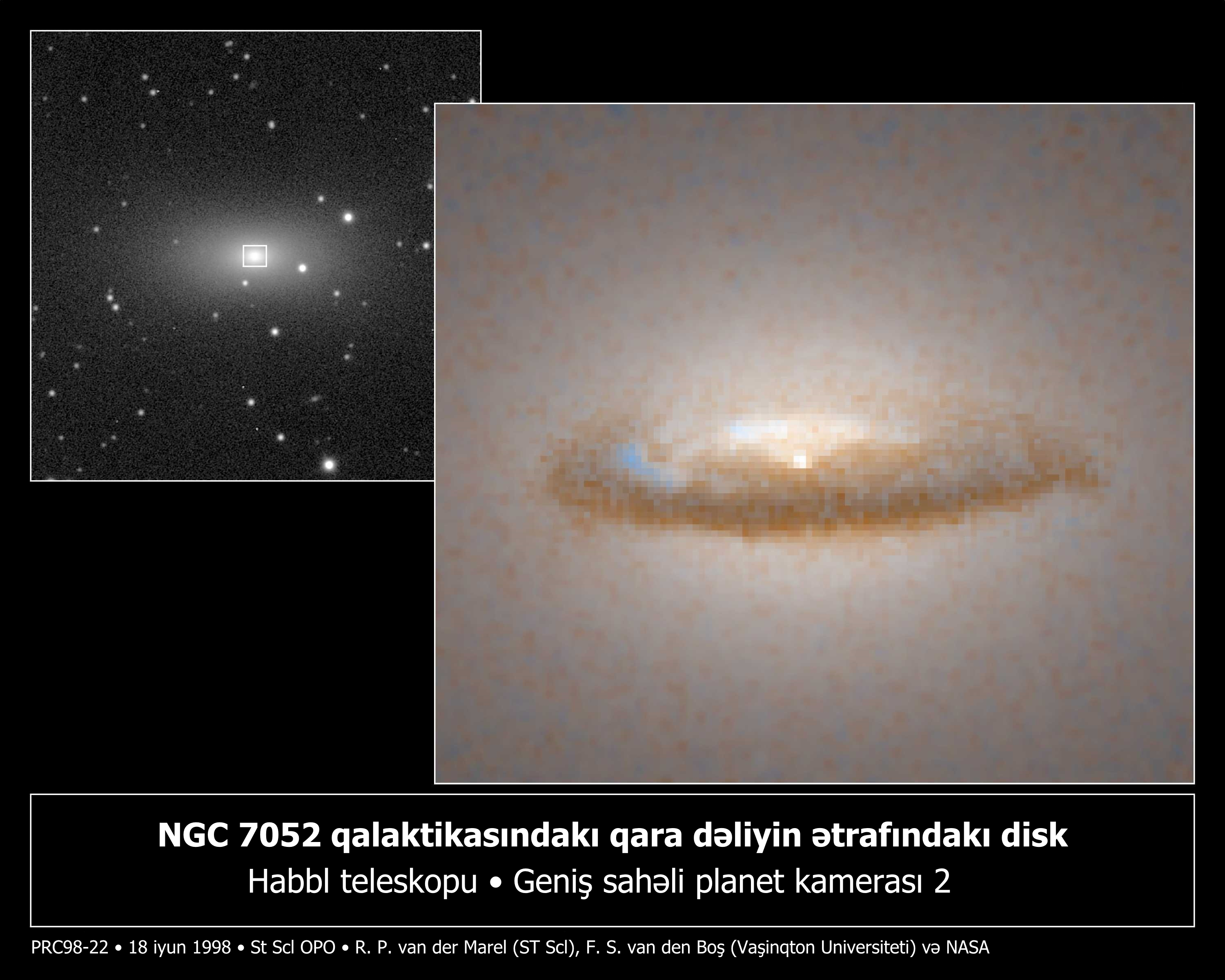 Date: 11.07.2002 Title: HUBBLE UNCOVERS DUST DISK AROUND A MASSIVE BLACK HOLE URL